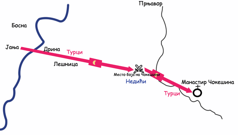 Map of battle that ocured near monastery of Čokešina in today Western Serbia between 303 Serbian rebel Hajduks(Otlaws) and large Ottoman army in year 1804 during Serbian revolution. The battle is called ,,Serbian Thermopile,, by German historian Leopold von Ranke